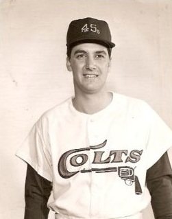 An early 1960s Houston Colt 45's press photo of Bob Aspromonte, who was drafted by the team in 1962. The website also shows the information about Aspromonte in the back of the photograph (which I can upload in request), and without a copyright notice. A check of several other pictures doesn't include copyright notices. It is therefore presumed the entire Colt 45s press kit is PD not renewed/PD no copyright 1978.